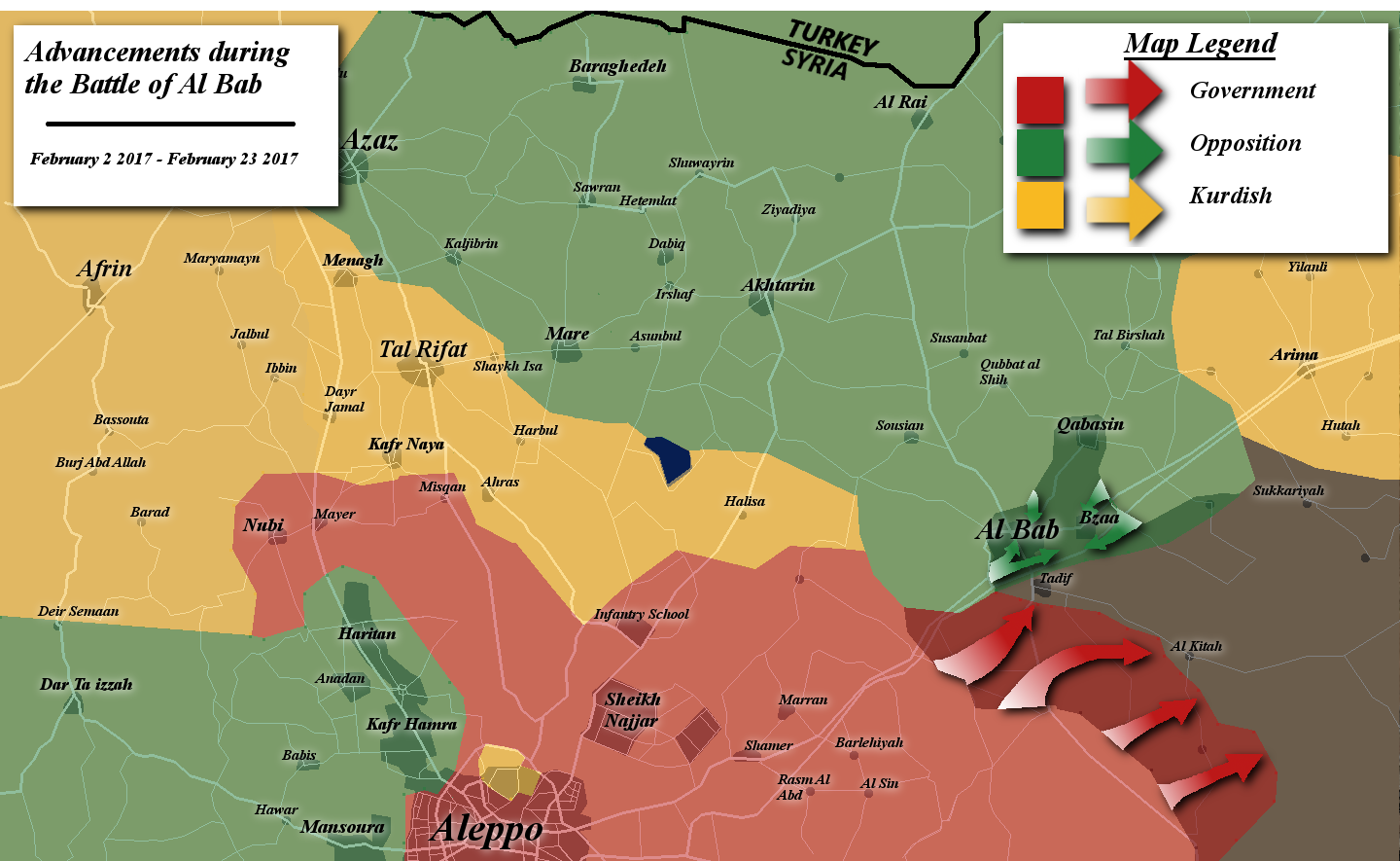 A simplified map of the final advances during the battle of Al Bab. Created in gimp 2.8. Influenced by many maps from creators: MrPenguin20, PetoLucem, Edmaps Syria, and so on.